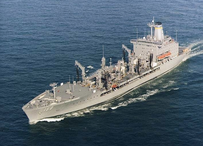 U.S. Navy Henry J. Kaiser-class fleet replenishment oiler USNS Big Horn (T-AO-198).